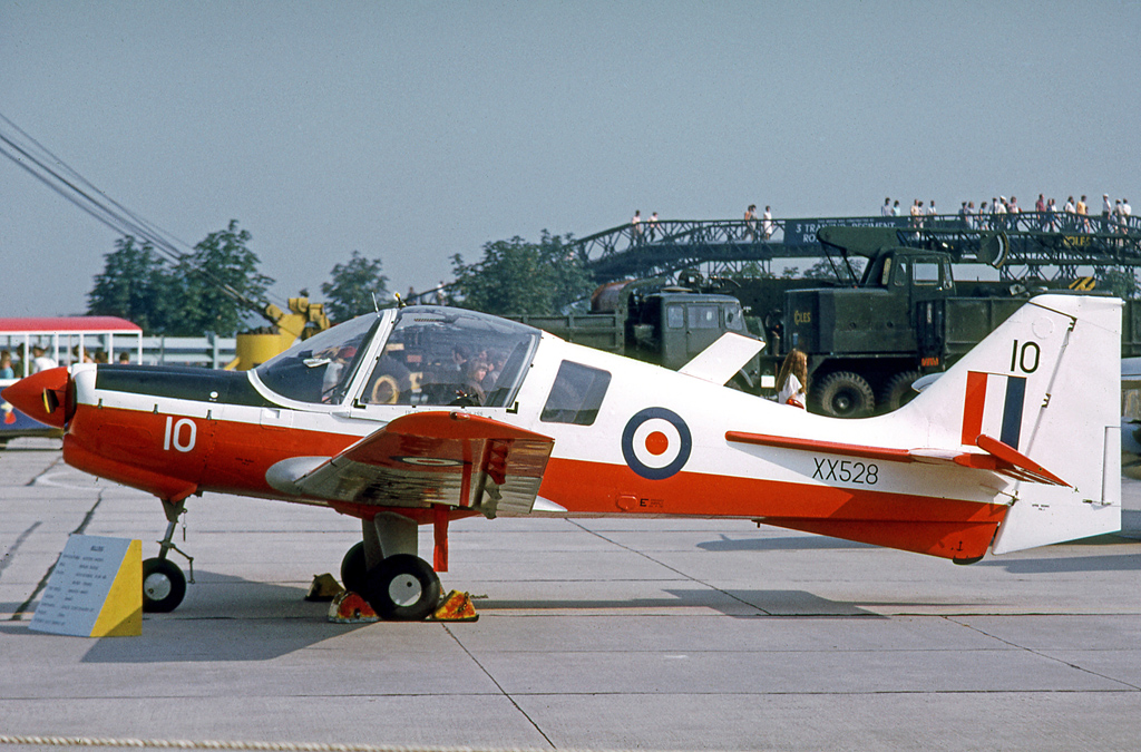 Scottish Aviation Bulldog T.1 XX528 '10' of No.2 Flying Training School RAF at RNAS Yeovilton Somerset in 1973